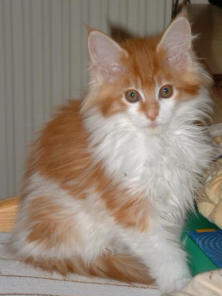 It's Me X-Mas Carol, called Caroline, Maine Coon, female, red tabby / white, at the age of 77 days